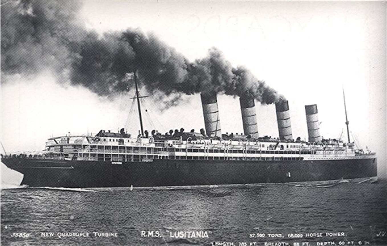 The Lusitania before the sinking